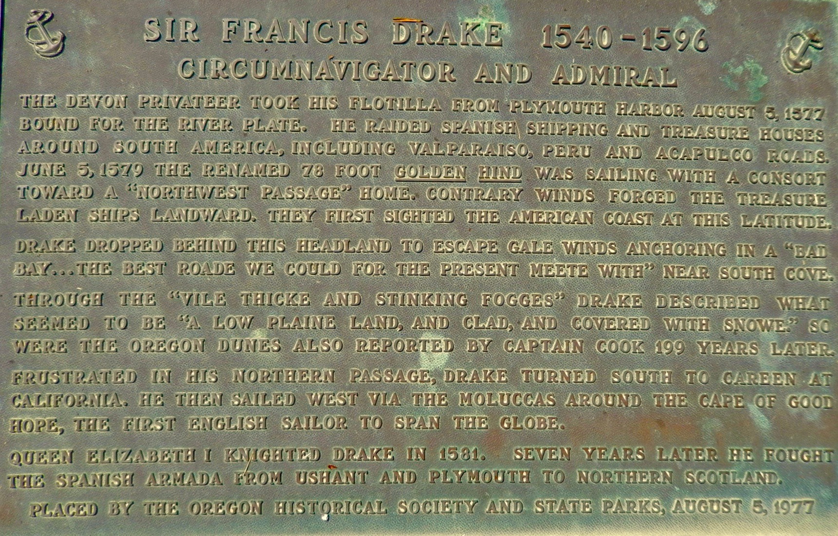 Monument near Coos Bay, Oregon, of Francis Drake's first North American Encounter